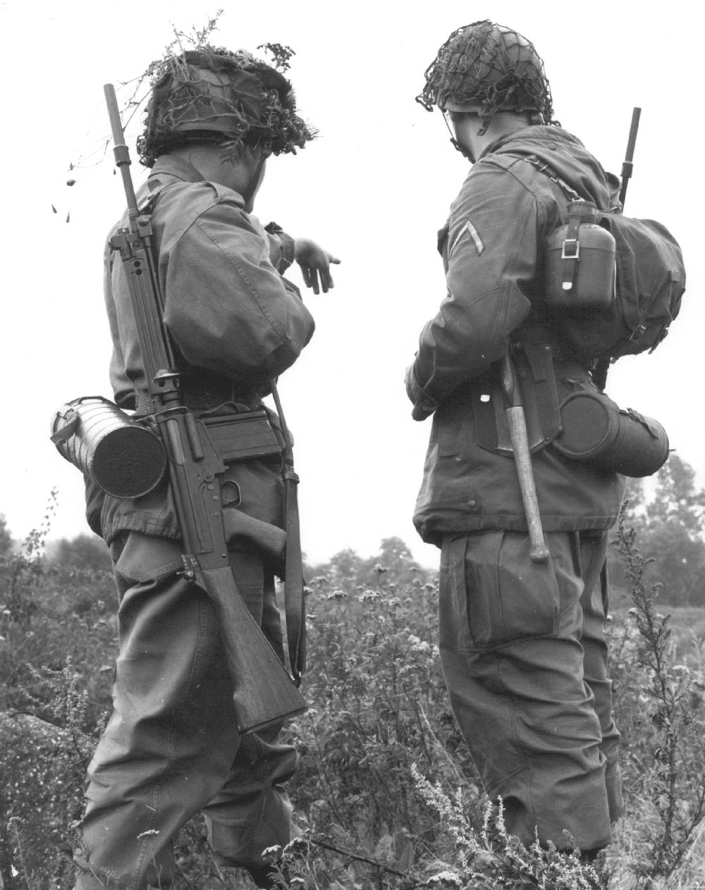 U.S. Cadet (Douglas V. Johnson II) and W. German Cadet on a field training problem, W.Germany